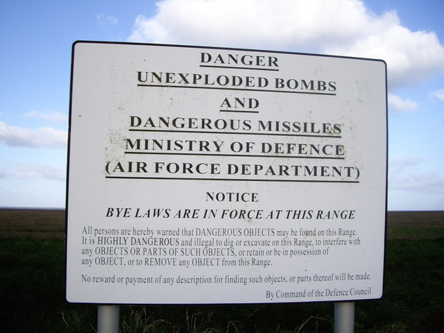 The Thrills and Spills of a Day At The Wash Not your average day trip to the seaside, this.